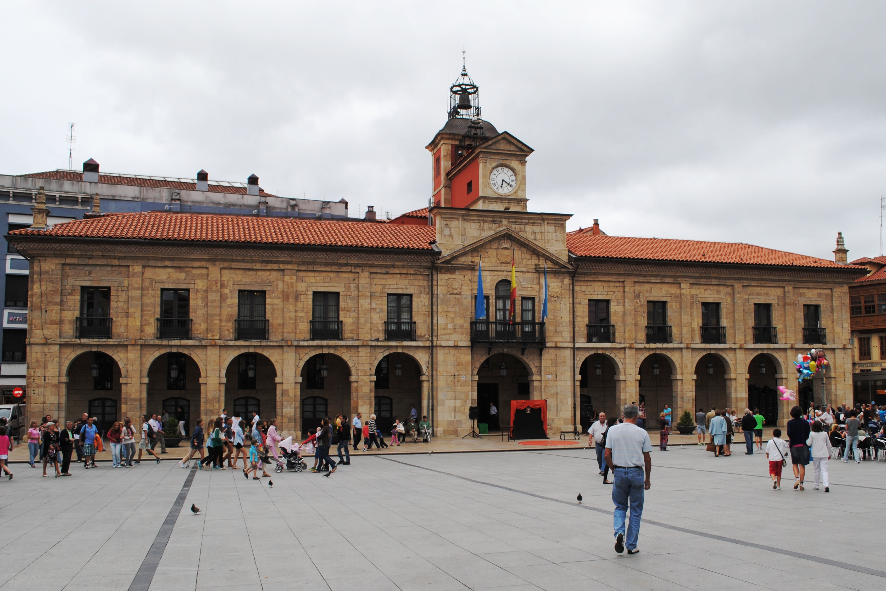 See title.